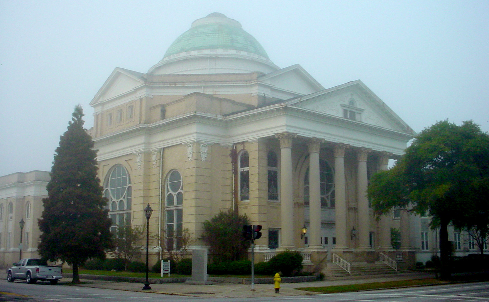 Augusta, Georgia, United States. Original location of Augusta's First Baptist Church. Greene Street at 8th Street